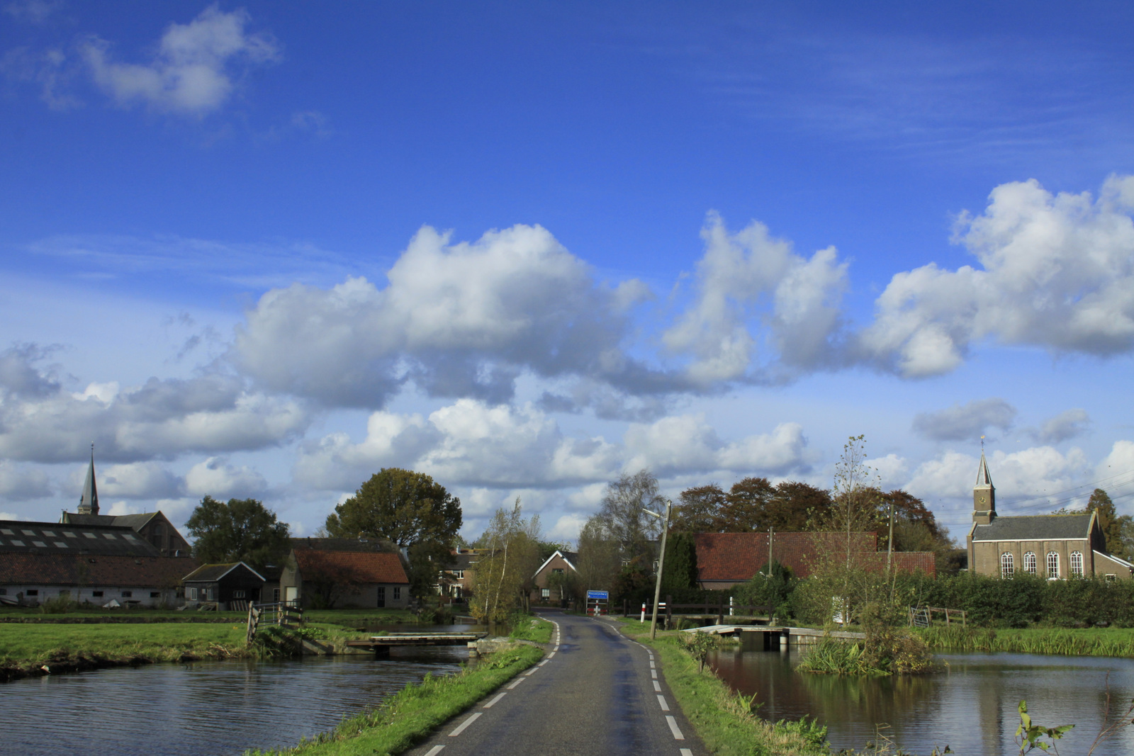 Reeuwijk-Dorp, province South Holland, the Netherlands. Left the church of Saint Peter and Saint Paul, and right the Dutch Reformed Church.